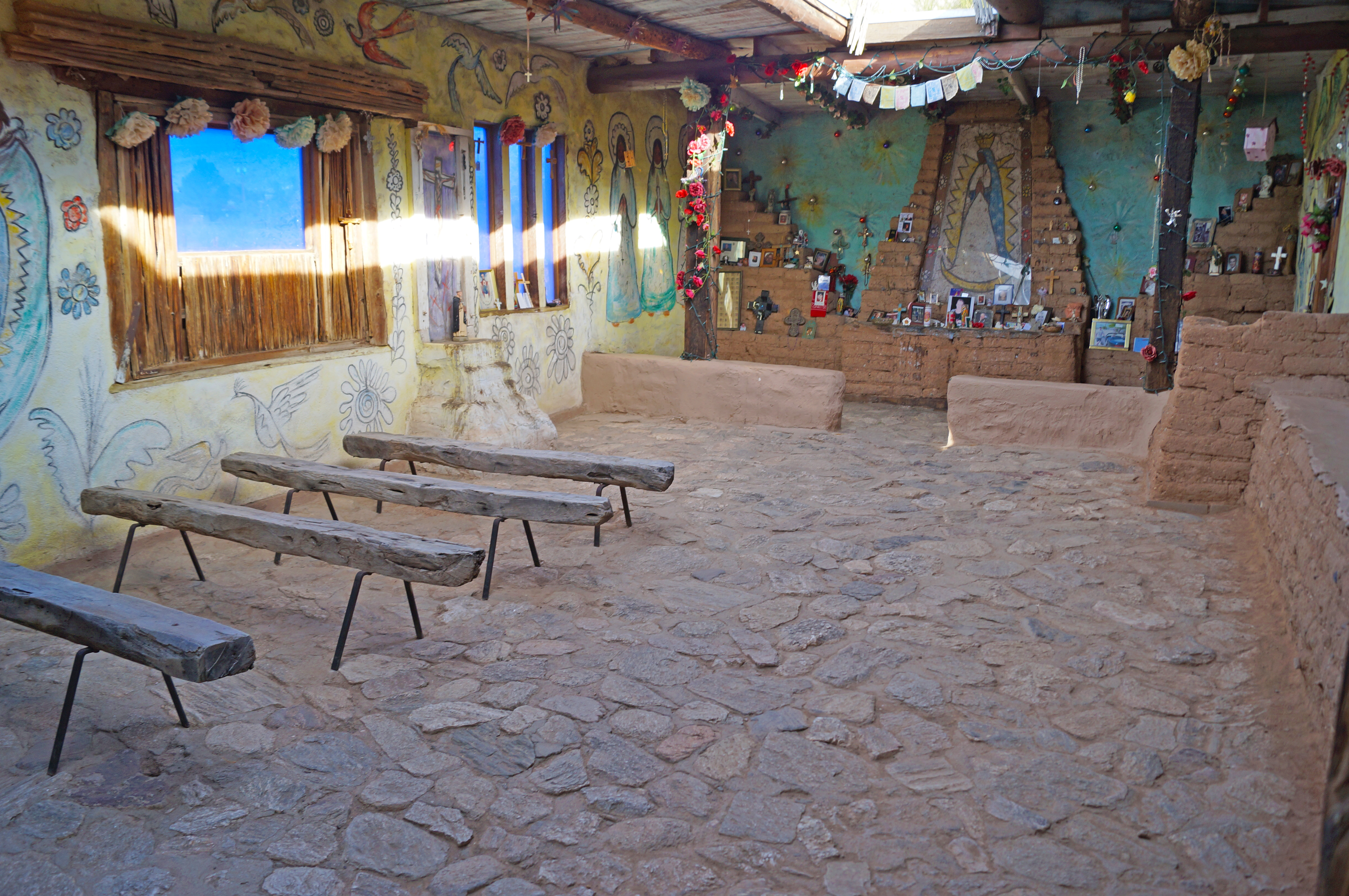 Interior of DeGrazia's Mission In the Sun in Tucson, AZ circa 1952